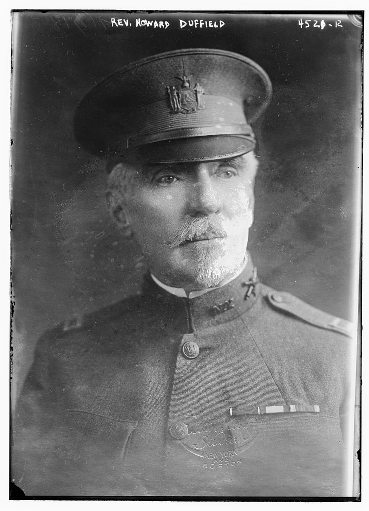 Bain News Service,, publisher. Rev. Howard Duffield [between ca. 1915 and ca. 1920] 1 negative : glass ; 5 x 7 in. or smaller. Notes: Title from unverified data provided by the Bain News Service on the negatives or caption cards. Forms part of: George Grantham Bain Collection (Library of Congress). Format: Glass negatives. Repository: Library of Congress, Prints and Photographs Division, Washington, D.C. 20540 USA, General information about the Bain Collection is available at Higher resolution image is available (Persistent URL): Call Number: LC-B2- 4521-12